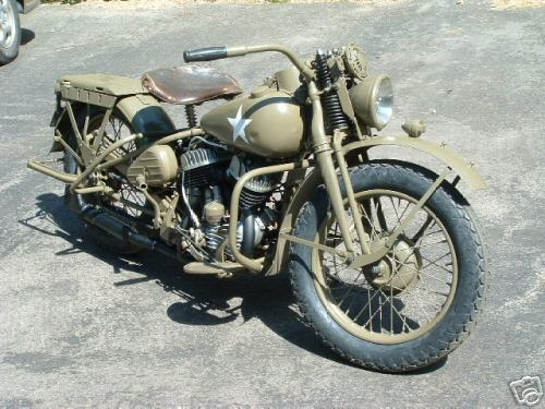 Three-quarter view of mostly-restored Harley Davidson WLA.